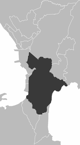 The black shade corresponds to the Kingdom of Namayan, an ancestor metropolis of Metro Manila. Filipino: Ang maitim na bahagi ay tumutugma sa Kaharian ng Namayan, isang sinaunang bayan na nakapaloob sa ngayo'y Kalakhang Maynila.